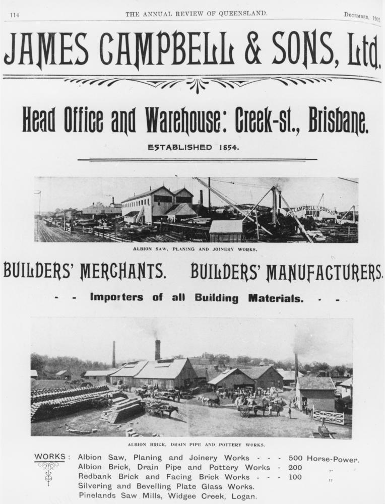 Advertisement for James Campbell & Sons Ltd, building suppliers, Brisbane, 1902 James Campbell owned various businesses in the supply of building materials including sawmills, plate glass works, potteries producing drain pipes etc and a brick works. The head office of the company was in Creek Street, Brisbane. The photographs feature the two properties at Albion.